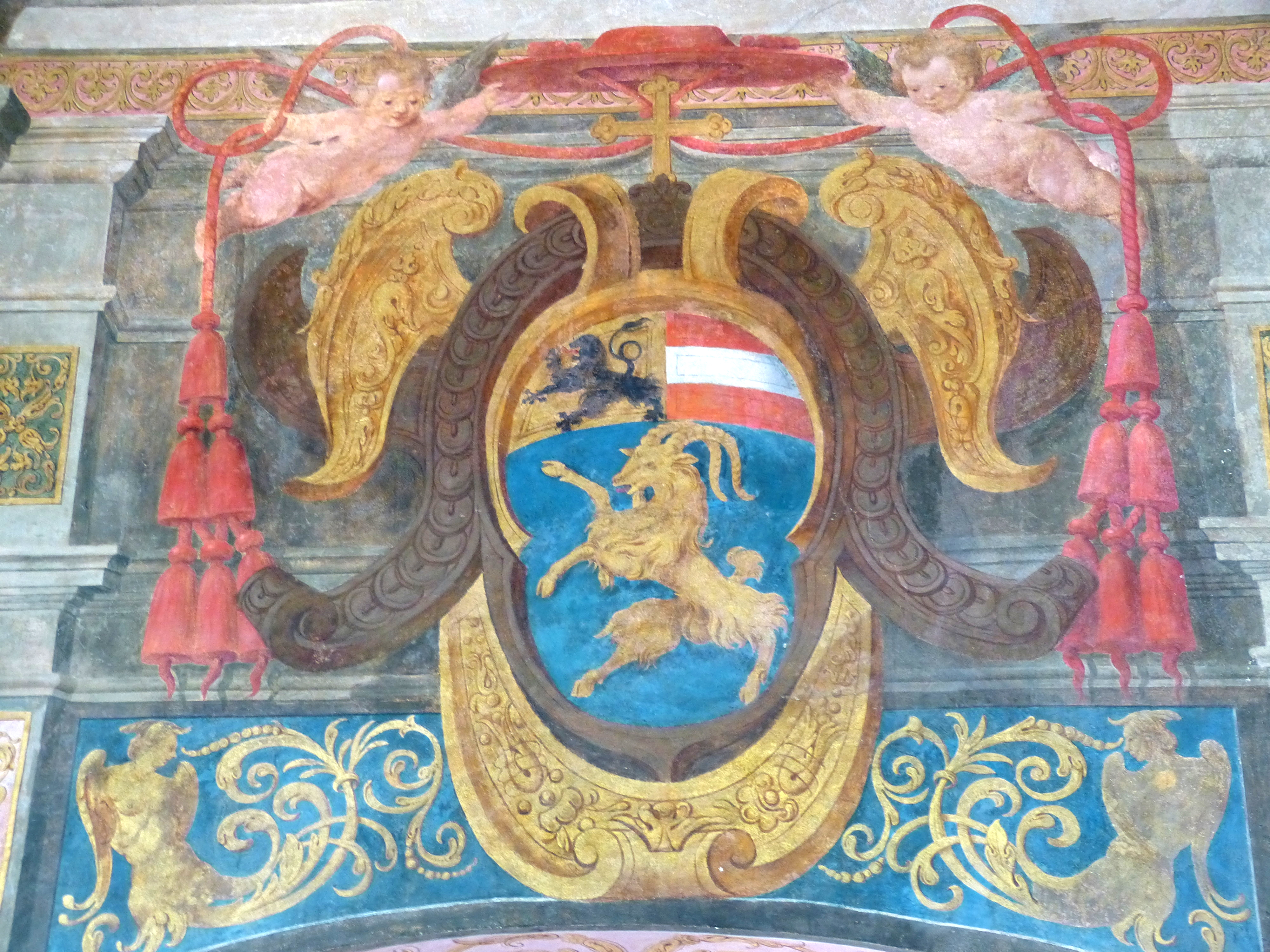 Salzburg ( Austria ). Hellbrunn palace: Banqueting hall: Walls with frescos ( 1610s ) by Donato Arsenio Mascagni - Coats of arms of Marcus Sitticus of Hohenems, archbishop of Salzburg.